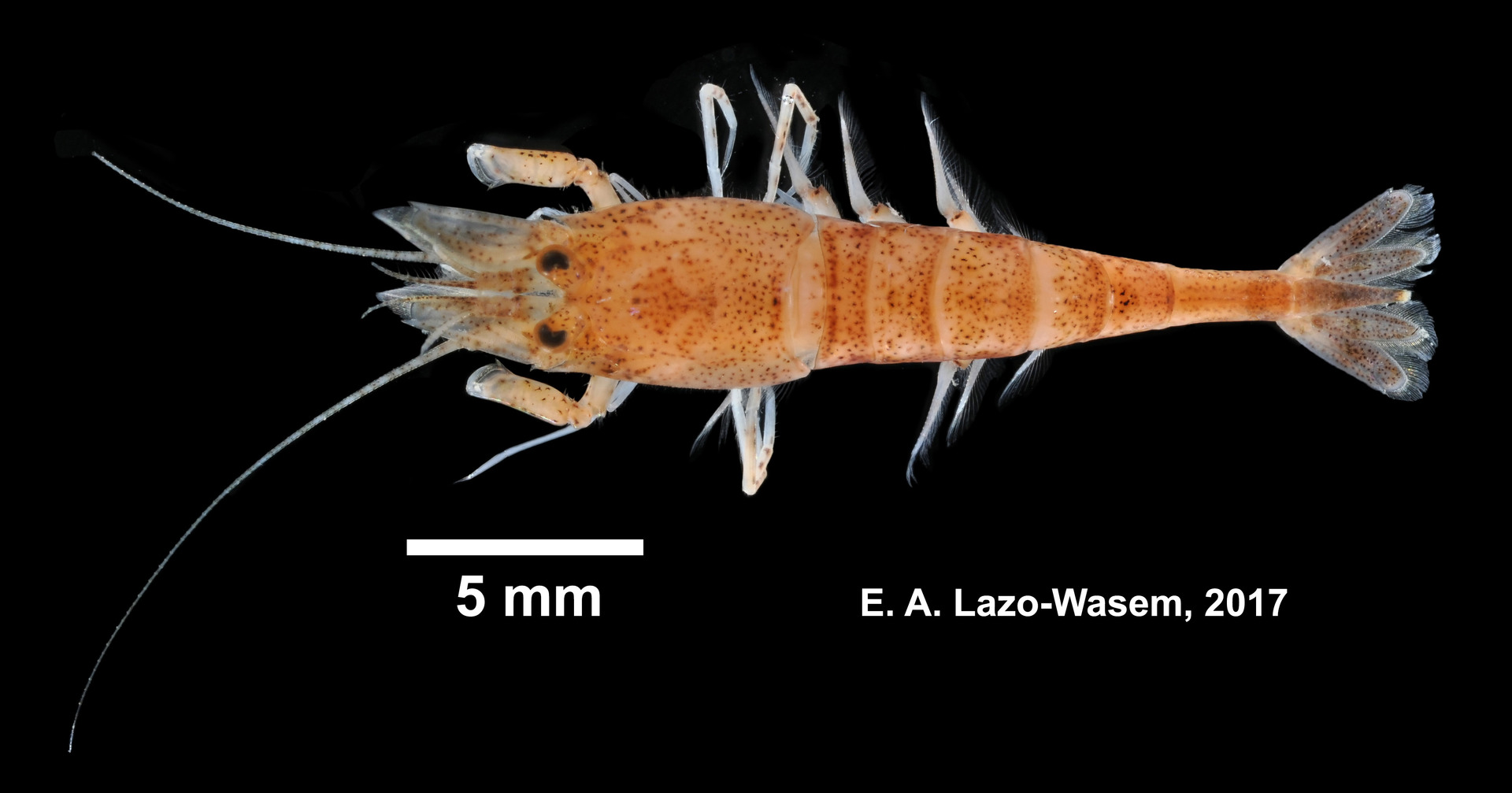 PRESERVED_SPECIMEN; ; 70% alc.; Det. by: Eric A. Lazo-Wasem 2017; Ginsburg; IZ number 97755; lot count 5; host: IZ.097412; 2017-06-26T00:00:00Z